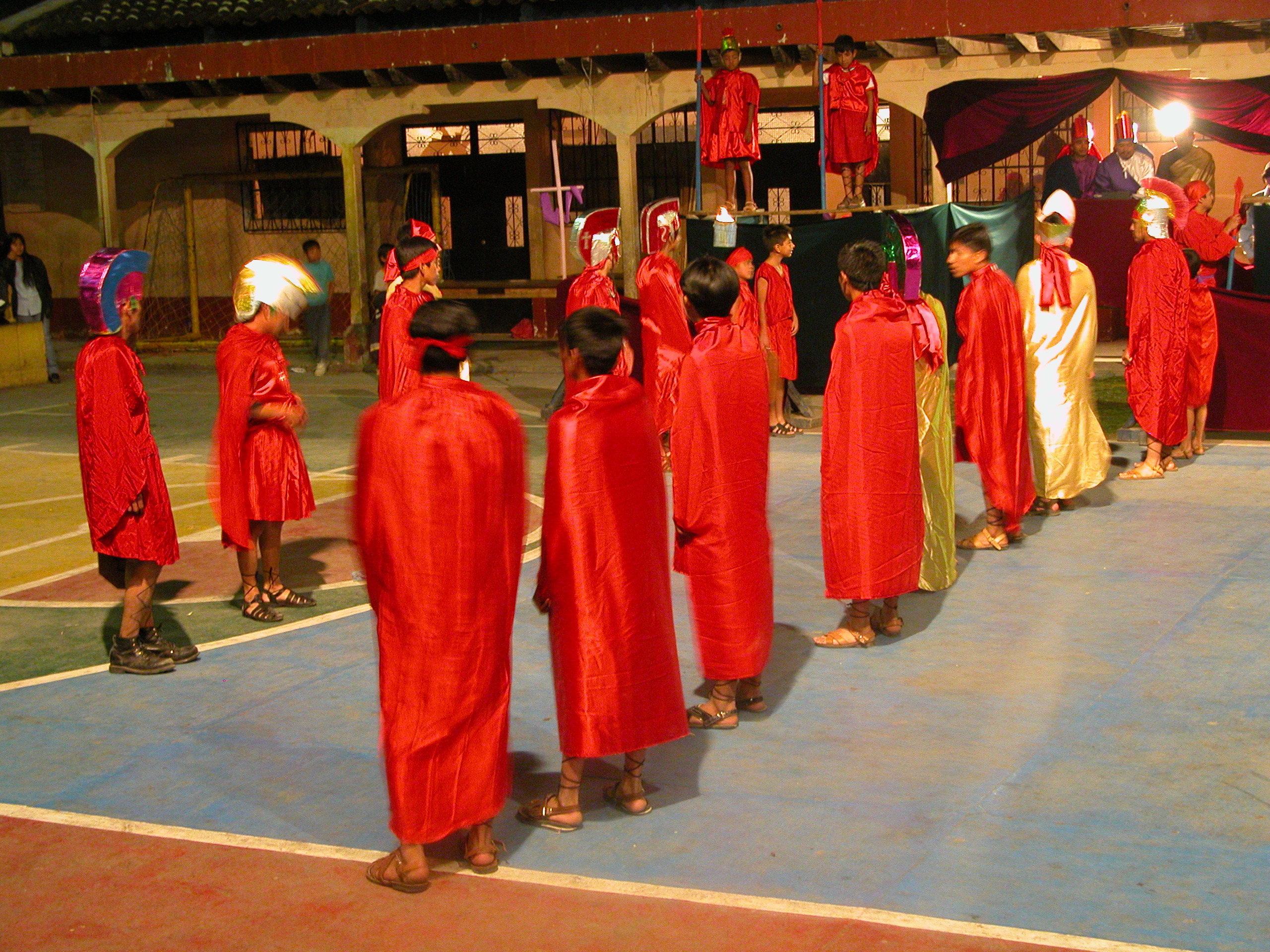 Photo taken in the Village of San Sebastian, Huehuetenango. The play is a depiction of the passion of Christ. These are the Roman soldiers lined up waiting for Jesus to be handed down by Cesare.